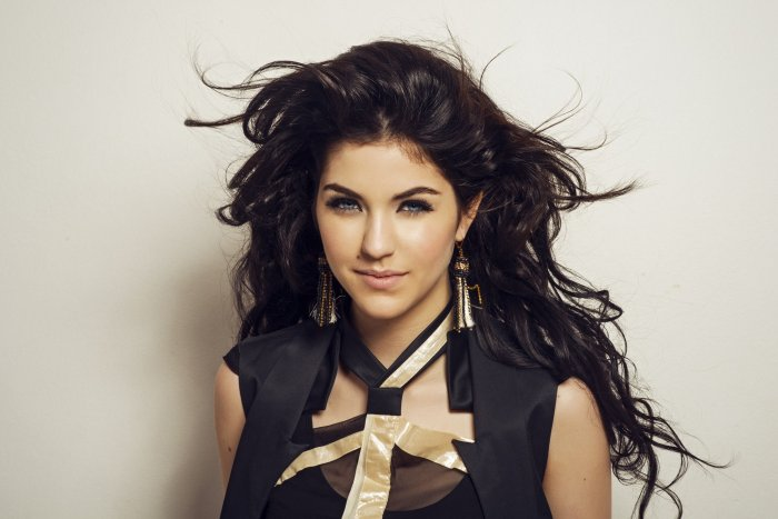 Celeste Buckingham, photographed by Lukáš Dvořák, using Nikon D800.